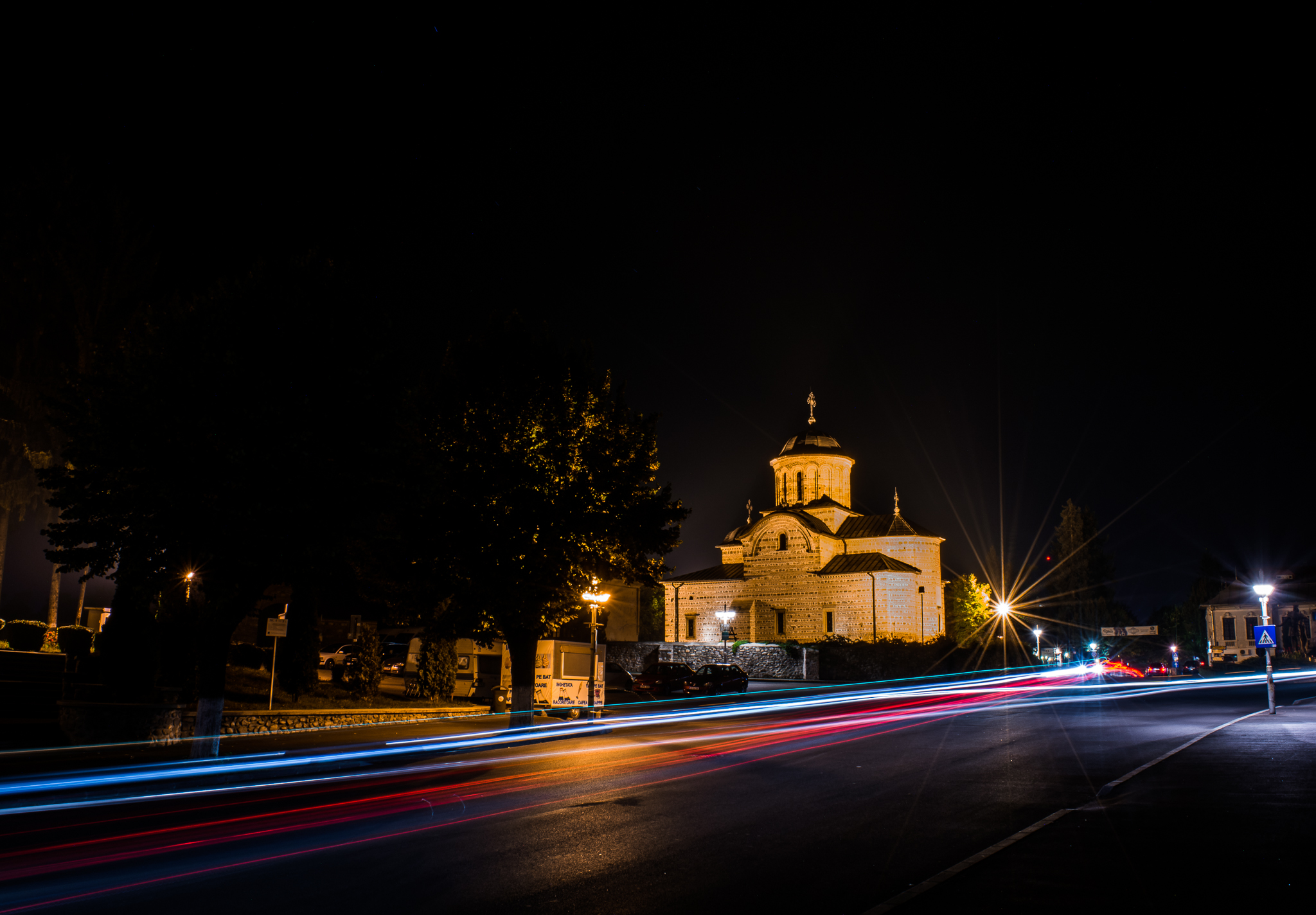 Curtea de Arges Royal Church at night 01